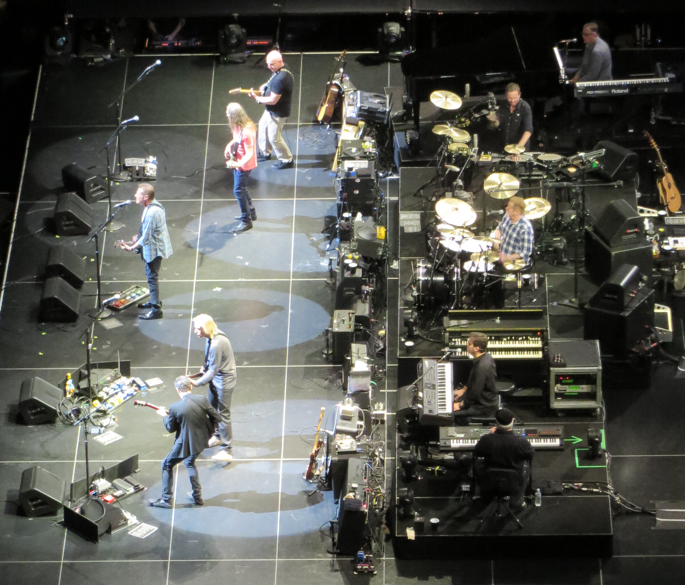 Eagles at the Amway Center, 400 West Church Street, Orlando, Florida.